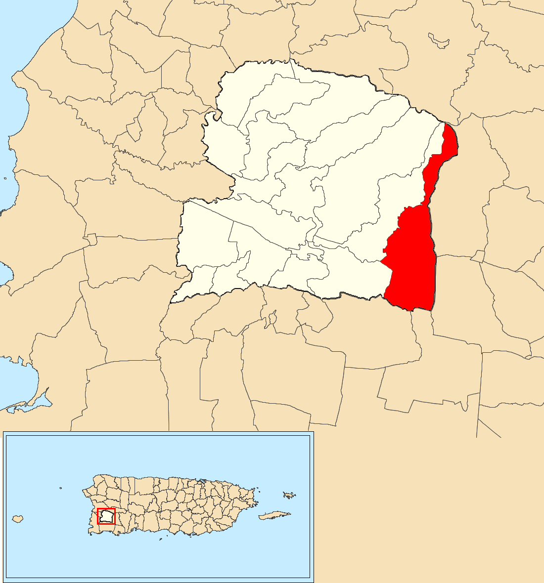 Minillas, San Germán, Puerto Rico locator map